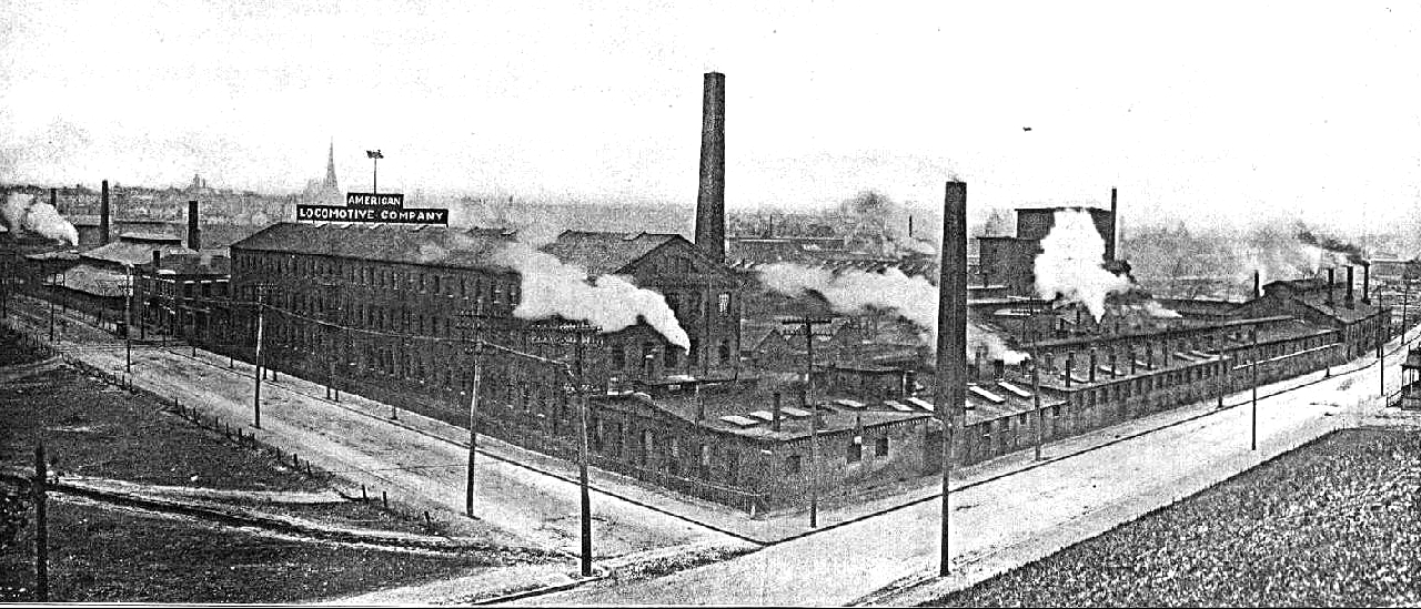 Alco-Rhode Island Locomotive Works in 1903